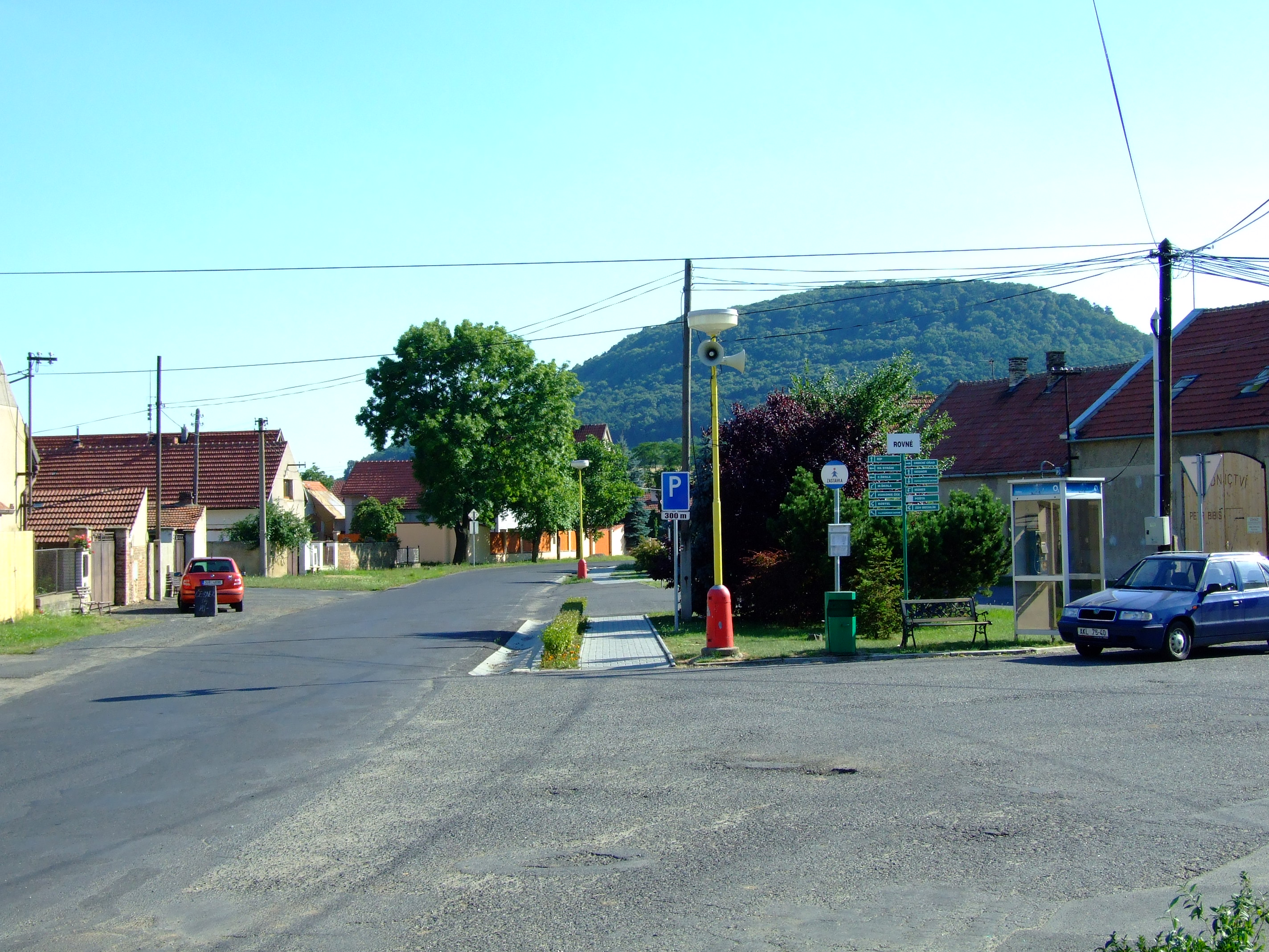 Rovné, part of Krabčice village in Litoměřice District, Ústí nad Labem Region, CZ